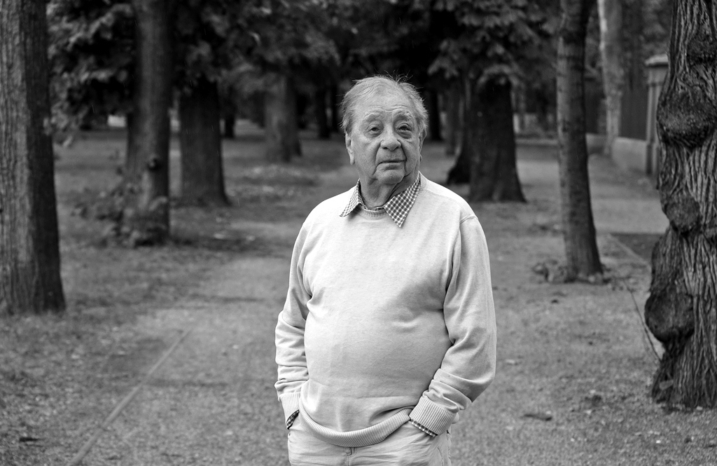 Károly Makk (born 22 December 1925) is a Hungarian film director and screenwriter.